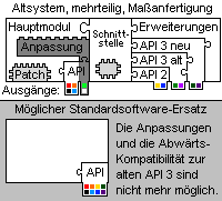 Miniature image to show the structure and problems of a legacy system, but also its advantages and the problems that come with a switch to a more powerful common software as replacement.